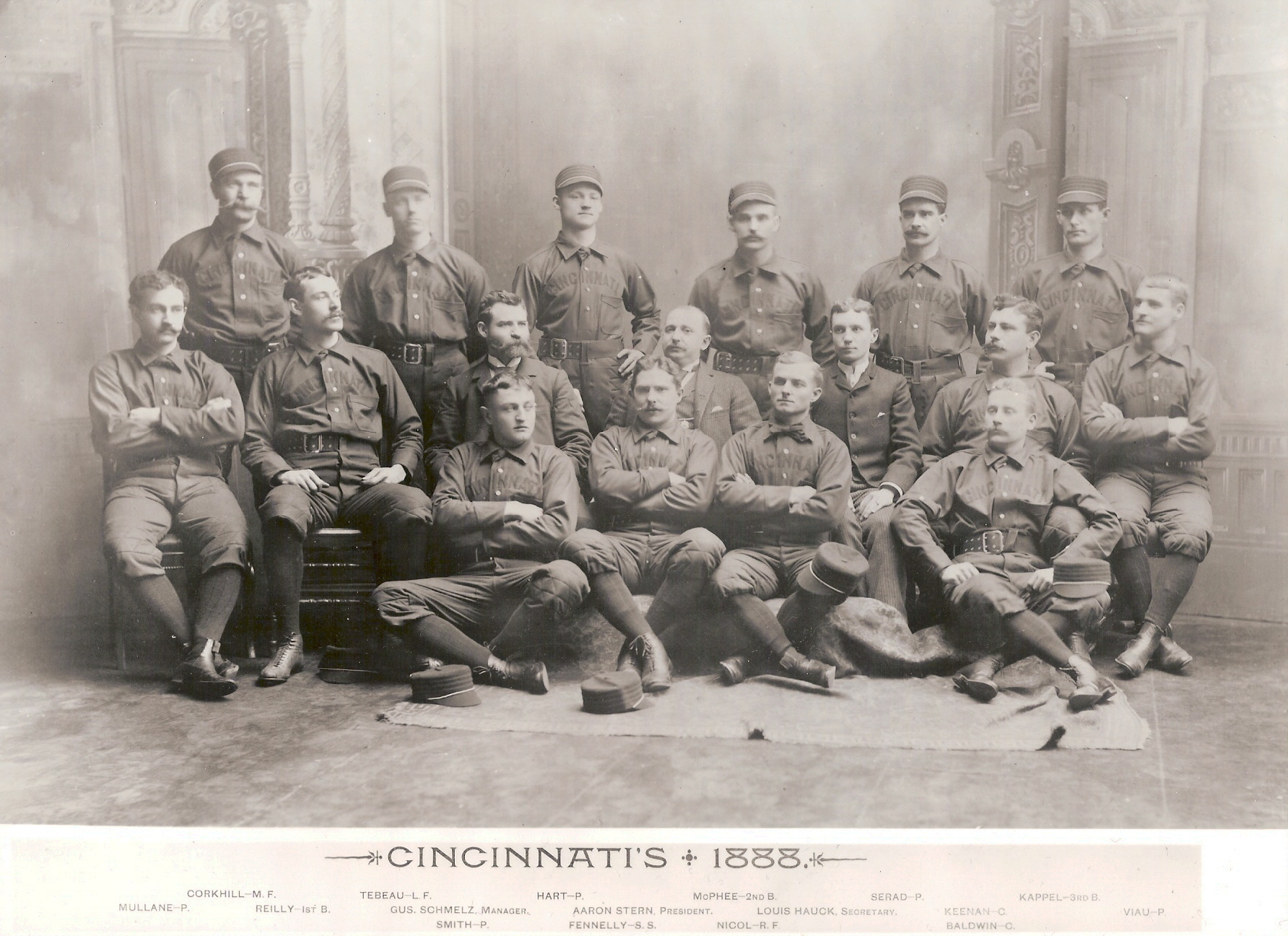 The 1888 Cincinnati Red Stockings baseball teamBack row, left to right: Pop Corkhill, George Tebeau, Bill Hart, Bid McPhee, Billy Serad, Heinie KappelMiddle row, left to right: Tony Mullane, John Reilly, Gus Schmelz, Aaron Stern, Louis Hauck, Jim Keenan, Lee ViauFront row, left to right: Mike Smith, Frank Fennelly, Hugh Nicol, Kid Baldwin